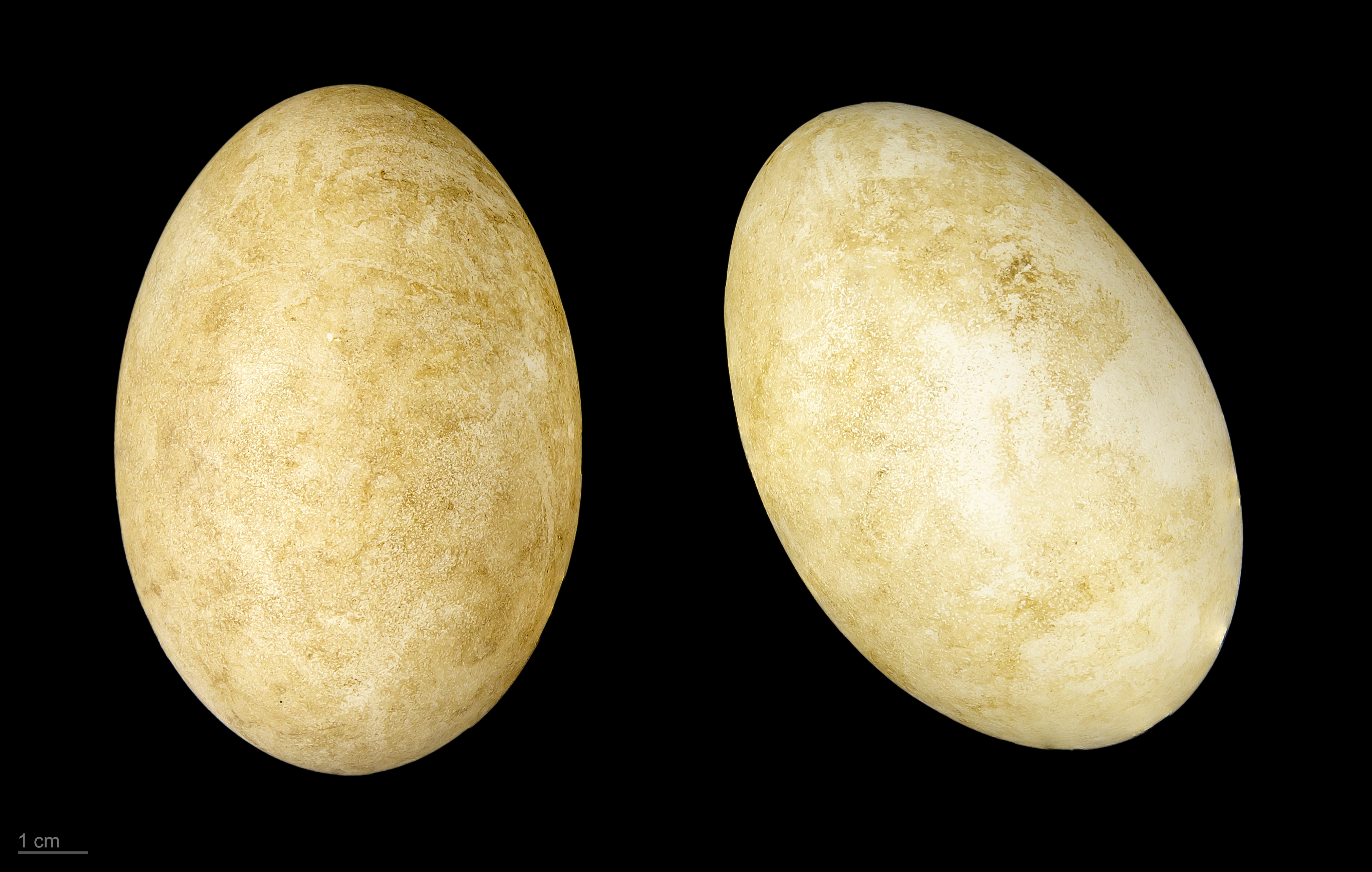 Egg of snow goose Collection of Jacques Perrin de Brichambaut.